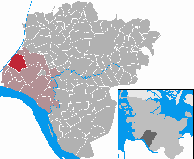 This map shows the area of the municipality Ecklak in the Kreis (district) Steinburg, Schleswig-Holstein, Germany.